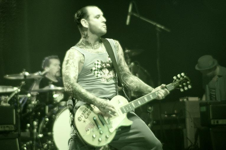 Mike Ness ... his primary guitar being a 1972 Goldtop Les Paul with Custom Shop Seymour Duncan P90 pickups in both the neck and bridge position, with an Orange County decal and a Mr. Horsepower (Clay Smith Cams logo) across the back of the body. — quoted from Wikipedia article